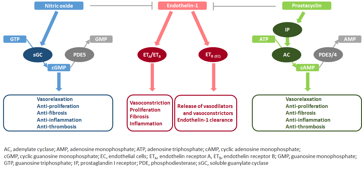 Molecules